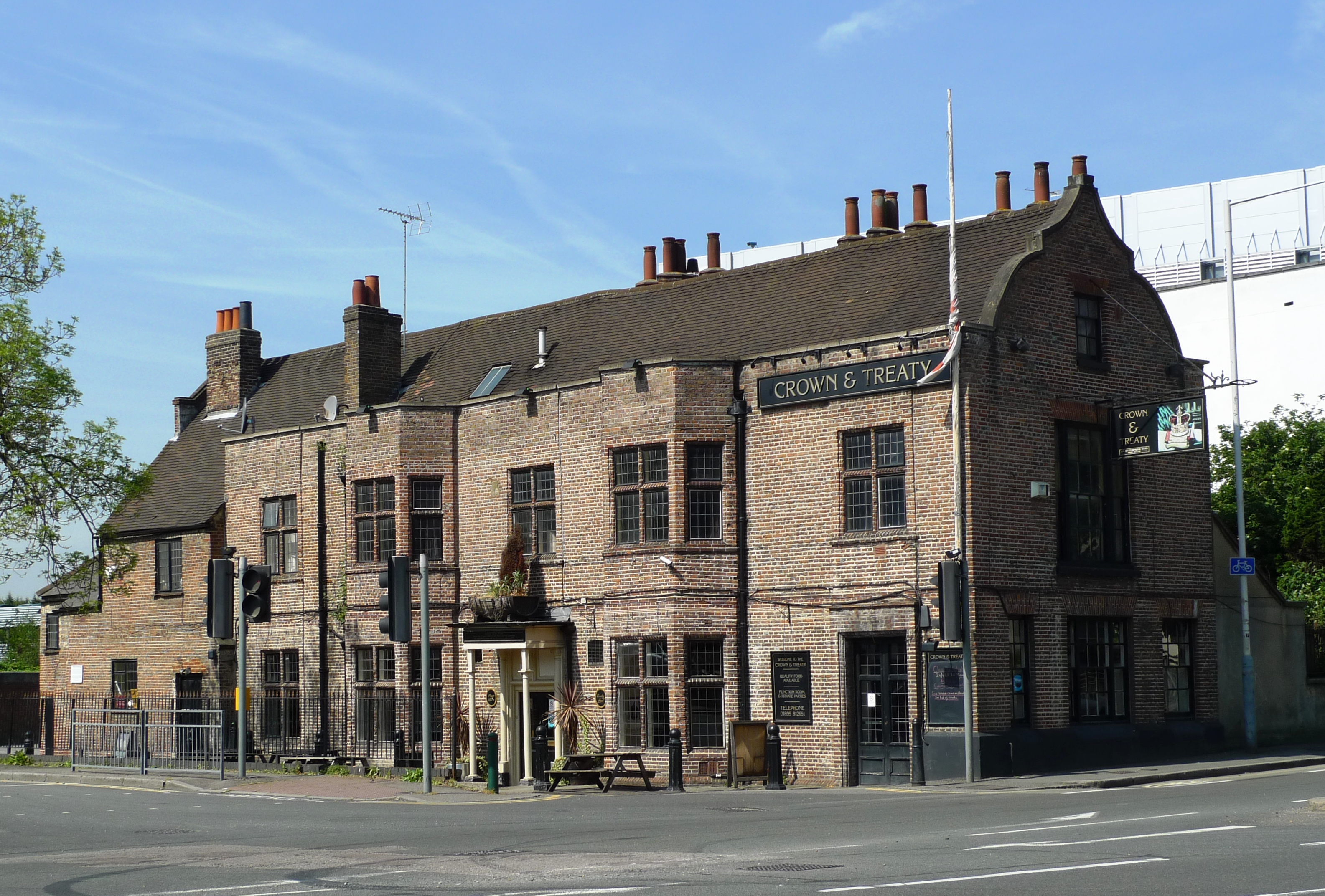 A large pub to the edge of Uxbridge. Address: 90 Oxford Road. Owner: Whitbread (former); Wethered's (former). Links: Pubs Galore Beer in the Evening Pubs History (history)